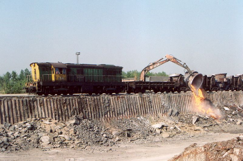 Locomotive 771.510, Lihovarská heap, Ostrava, Czech Republic